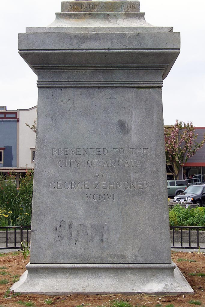 Inscriptions on the back side of the pedestal of the statue of President William McKinley in Arcata, California.